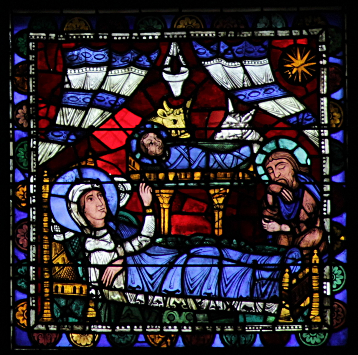 Nativity of Jesus